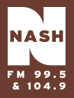 "Nash FM" logo for radio stations 99.5 WPKR (Omro) and 104.9 WPCK (Denmark, Wisconsin), adopted by the stations on May 24, 2013